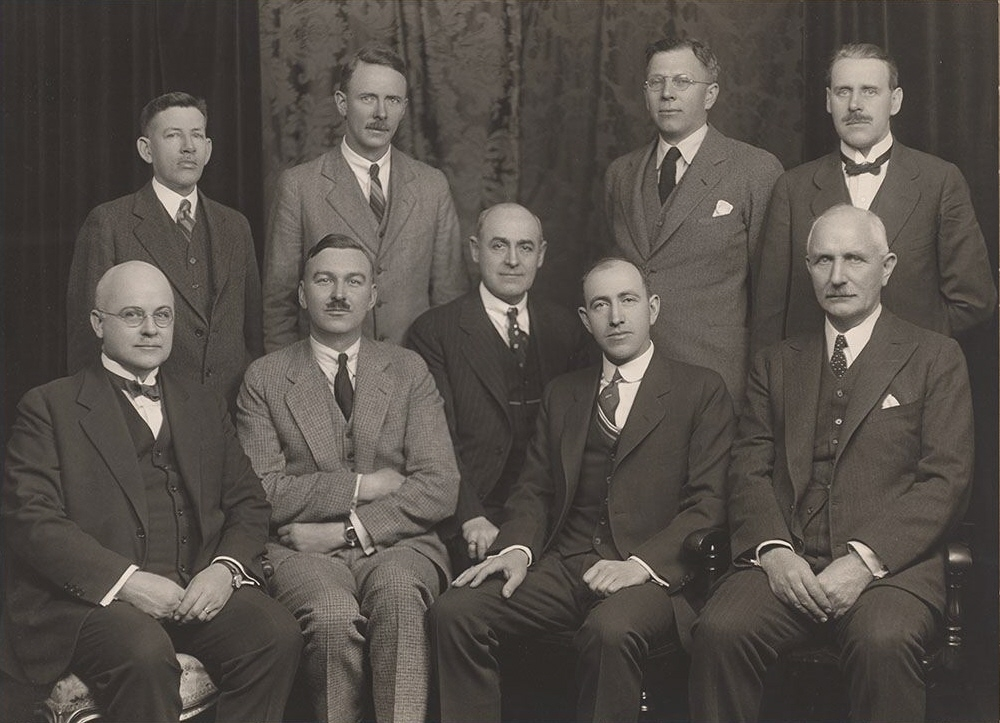 Photograph of the Council of the Village of Forest Hill (now part of Toronto, Canada). Back row, from left to right: L.W. Archer, Clerk and Treasurer; Melville Grant, Solicitor; R.E. Grass, Councillor; James H. Lowry, Commissioner of Works. Front row, from left to right: Hugh E. Ferguson, M.D.; A.H. Keith Russell, Reeve; Charles McKay, Councillor; Andrew Hazlett, Councillor; and Brig.-Gen. G.S. Cartwright, Deputy Reeve.